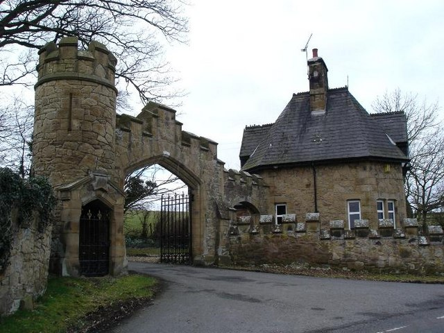 Gyrn Castle gatehouse. Gatehouse and cottage at the entrance to Gyrn Castle